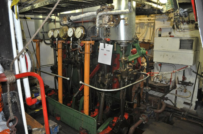 Lydia Eva YH89 Triple Expansion Steam Engine, near to Great Yarmouth, Norfolk, Great Britain. The triple expansion marine engine, fitted here at Great Yarmouth. All the pressure gauges are original as well as most bits of the engine. For the cylinder heads and how the engine works see here Link . The red handle where the steel bar around the engine stops is the regulator. Steam is (the engine is still operational) produced by the Scotch boiler producing steam at 200 pounds per square inch. Link